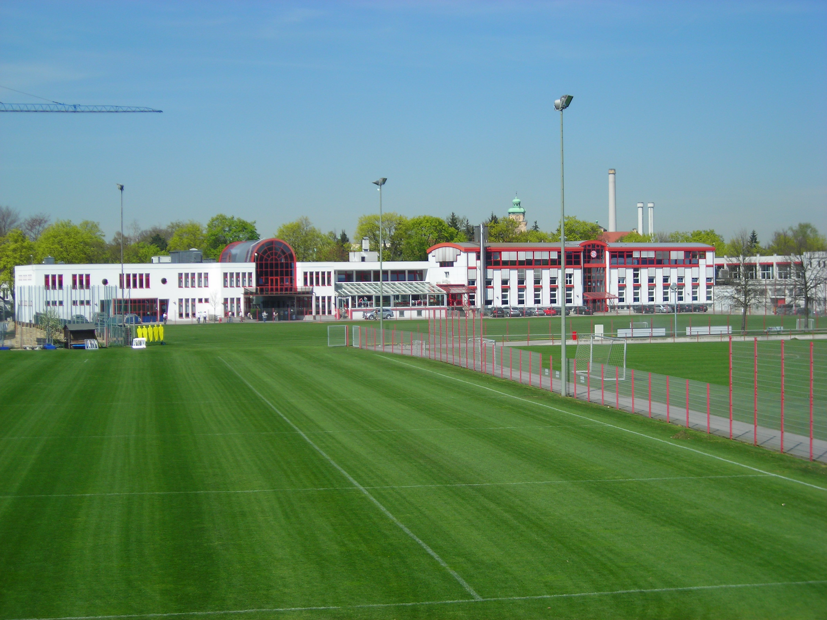 FC Bayern München premises in Säbener Str. 53, München, Germany (partial view).